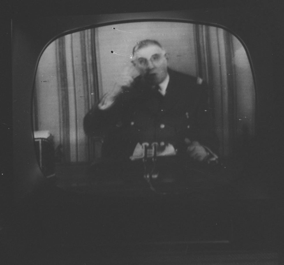 Charles De Gaulle on television in his military uniform asking the French people to support his Algerian policy